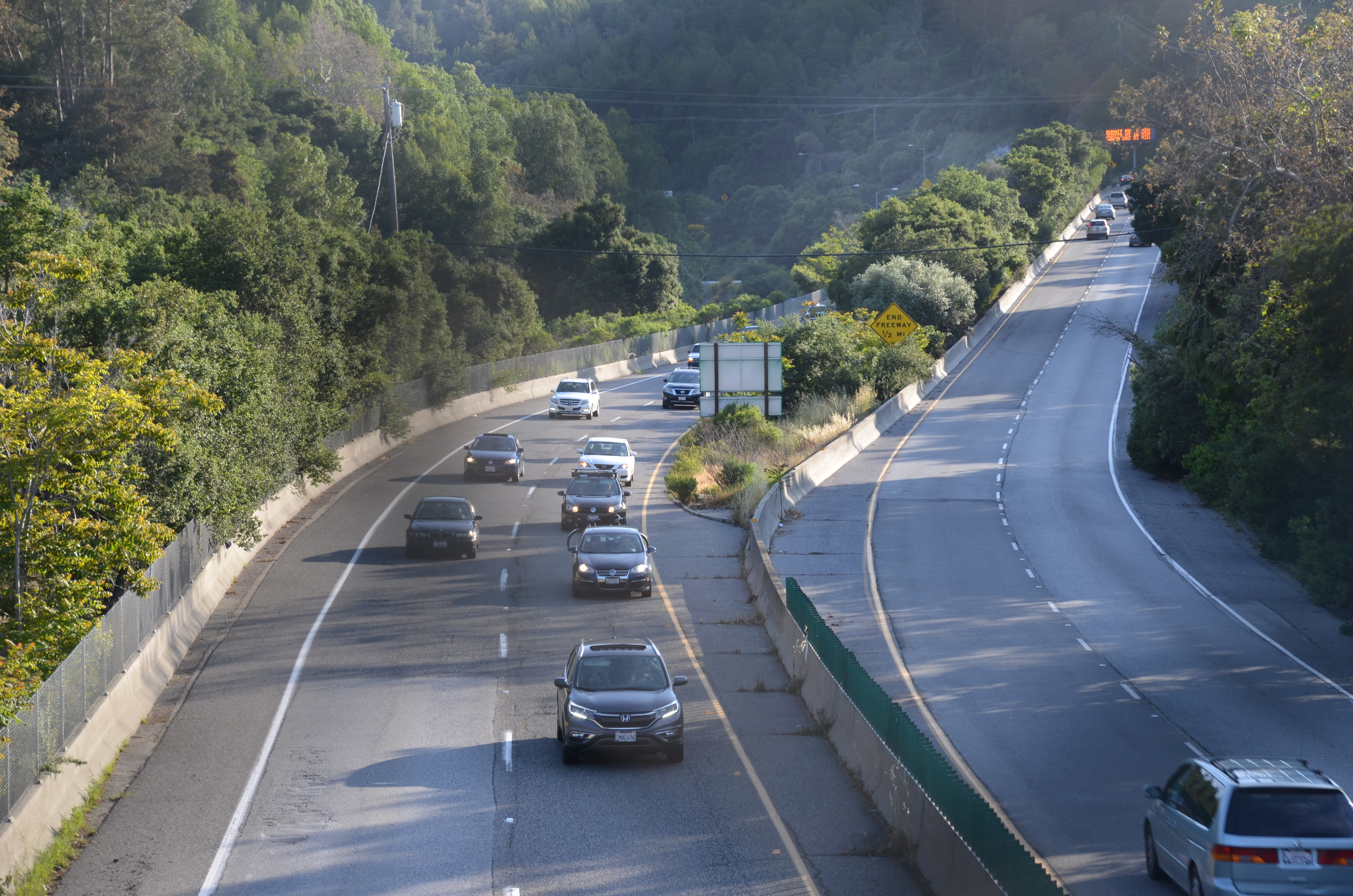 View of CA 17 freeway from downtown Los Gatos